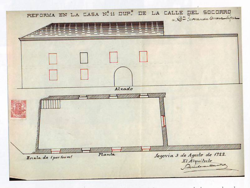 Diagram of plant and elevation of the reconstruction of the House No. 11 duplicate of the street of the relief (Segovia, Spain), in the remains of the chapel of San Gudumián (1290) and then San Gregorio.